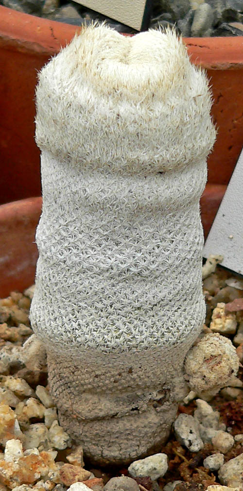 Photo of Epithelantha bokei at the University of California Botanical Garden